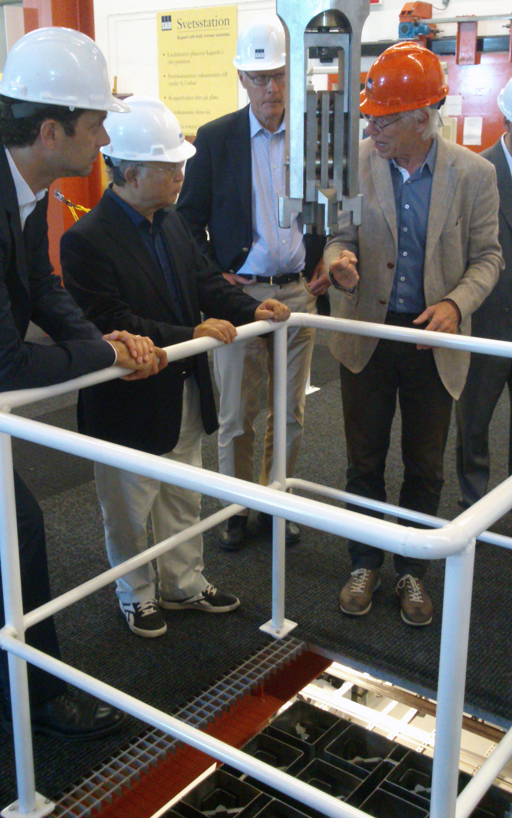 IAEA Director General Yukiya Amano visits the SKB Canister Laboratory in Oskarshamn, Sweden on 14 June 2014. Left to right: Mr Christopher Eckerberg, President, SKB; centre: IAEA Director General Yukiya Amano, Ambassador Nils Daag, Permanent Representative of Sweden to the IAEA and Mr Håkan Rydén Senior Advisor, SKB. Photo Credit: Conleth Brady / IAEA